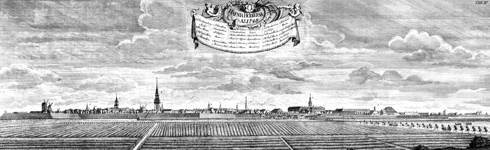 Copenhagen's skyline seen from Nørrebro. Lauritz de Thurah: Hafnia Hoderna. København, 1748, tab. IV.